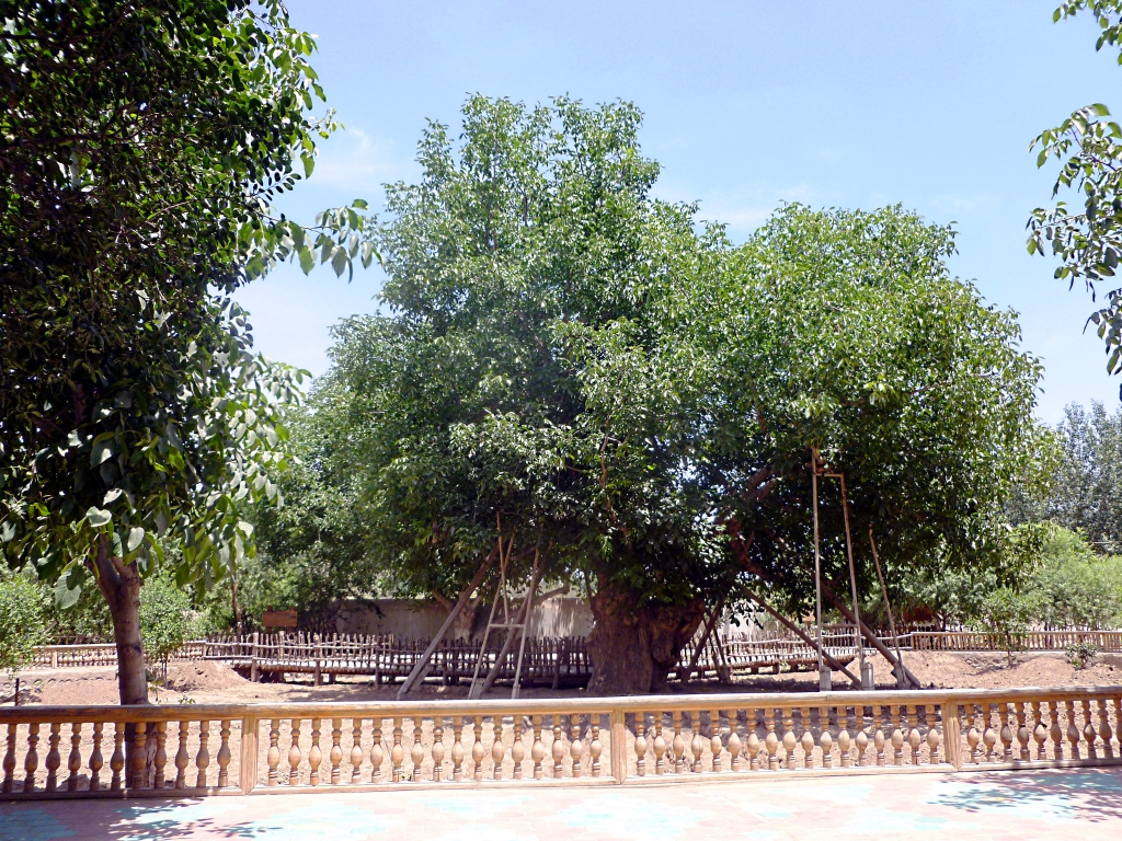 I took this photo of this Walnut tree - claimed to be the oldest in the world - on a trip along the 'Southern Silk Route' near Khotan in 2011